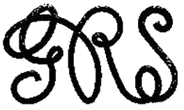 Logo of General Railway Signal, a defunct company that manufactured railway signaling equipment.